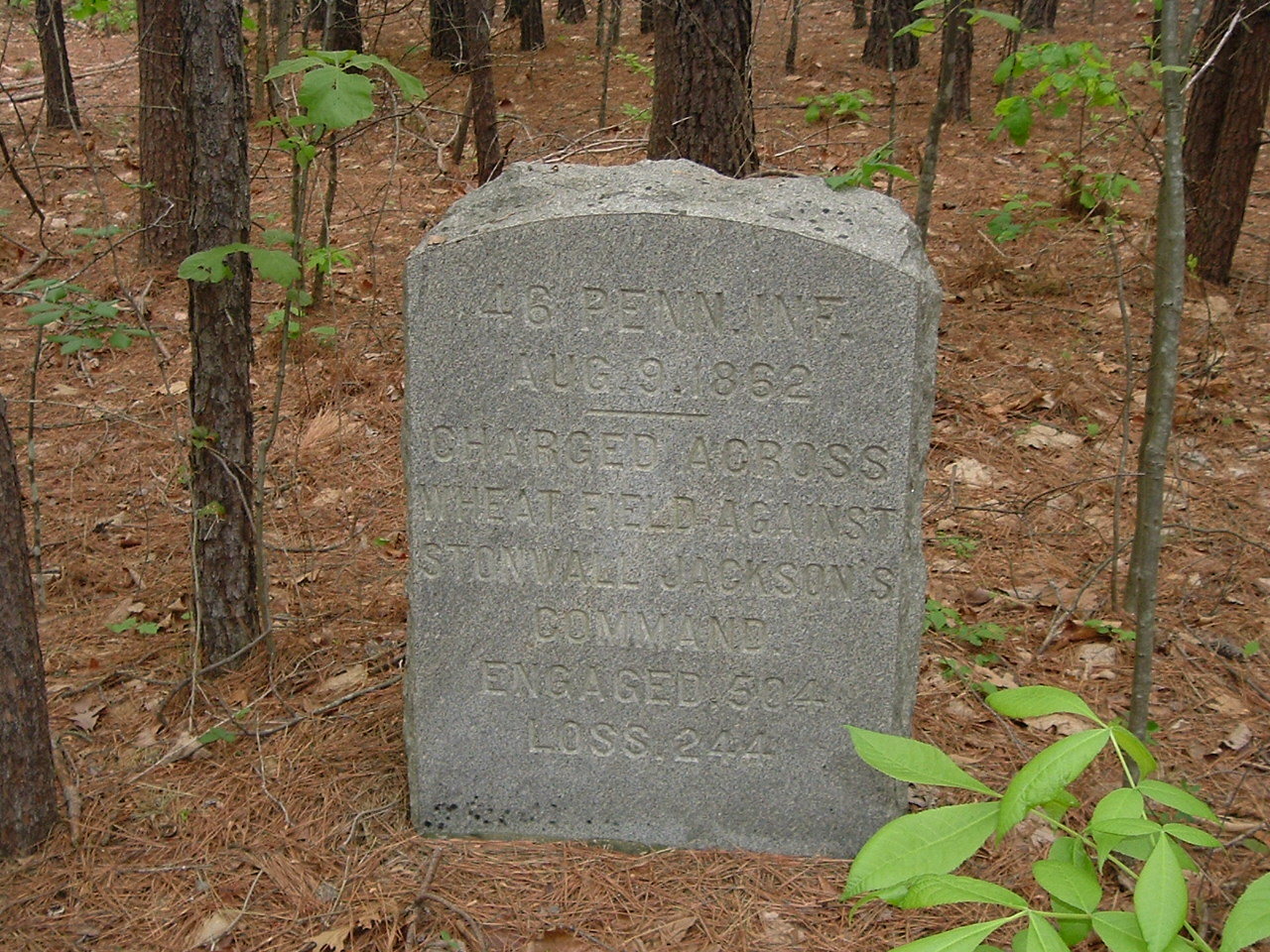 46th Pennsylvania Monument, Cedar Mountain Battlefield. Photo by M. Stewart, 5/5/07.